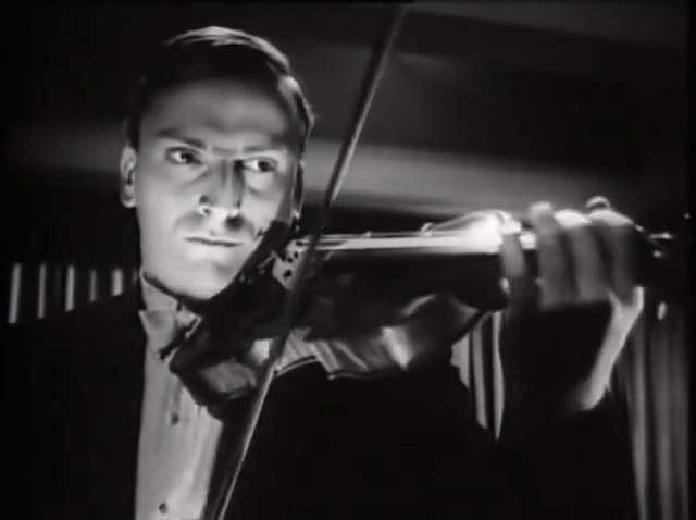 Cropped screenshot of Yehudi Menuhin from the film Stage Door Canteen.